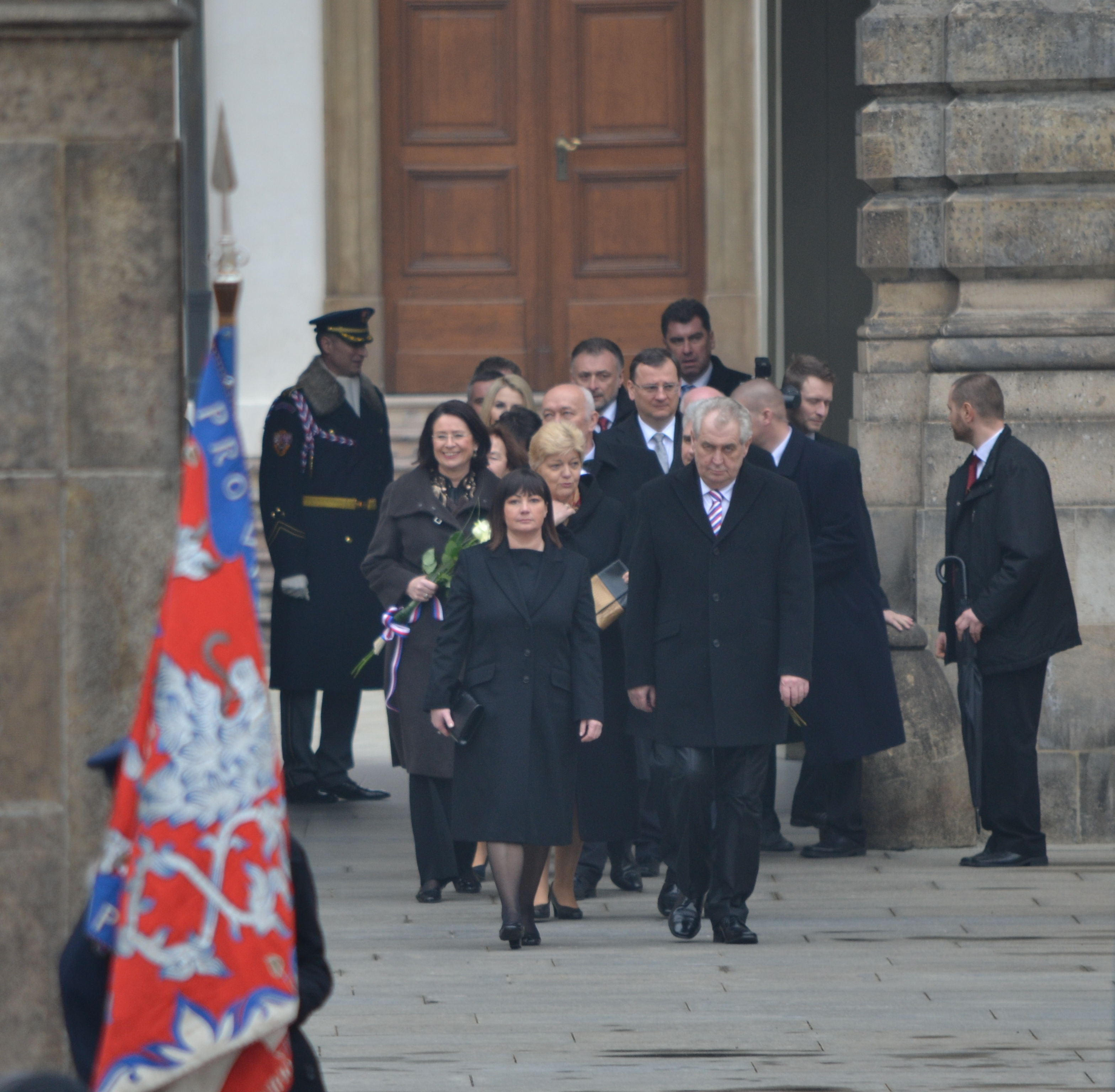 President Miloš Zeman with his wife, Prague Castle, Prague, Czech Rep.